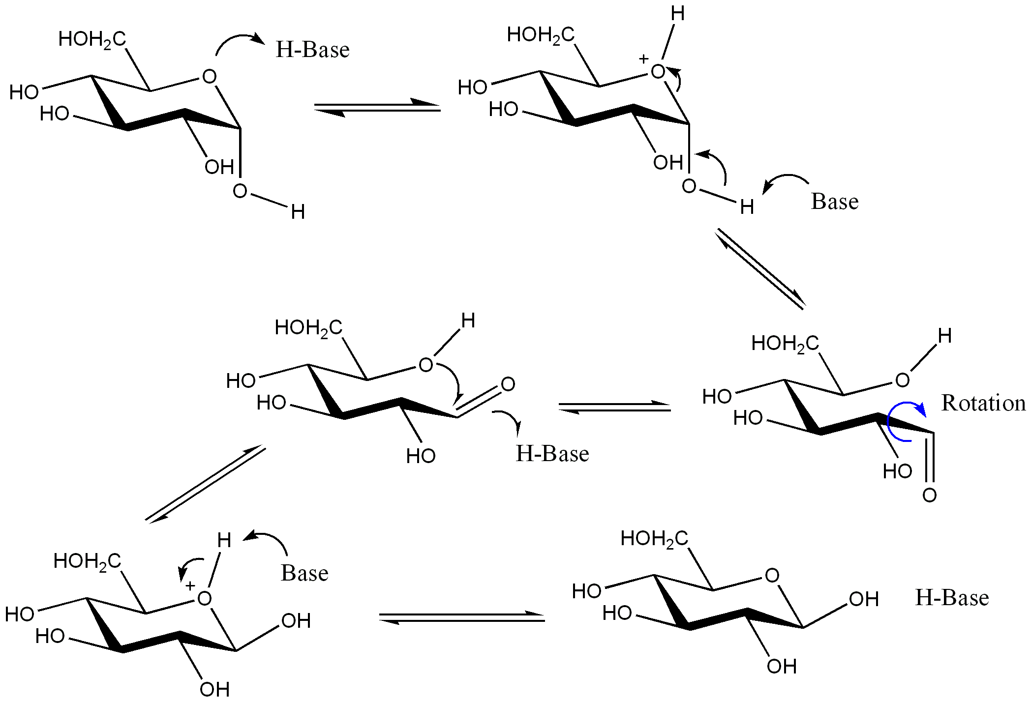 Generalmutamech.png